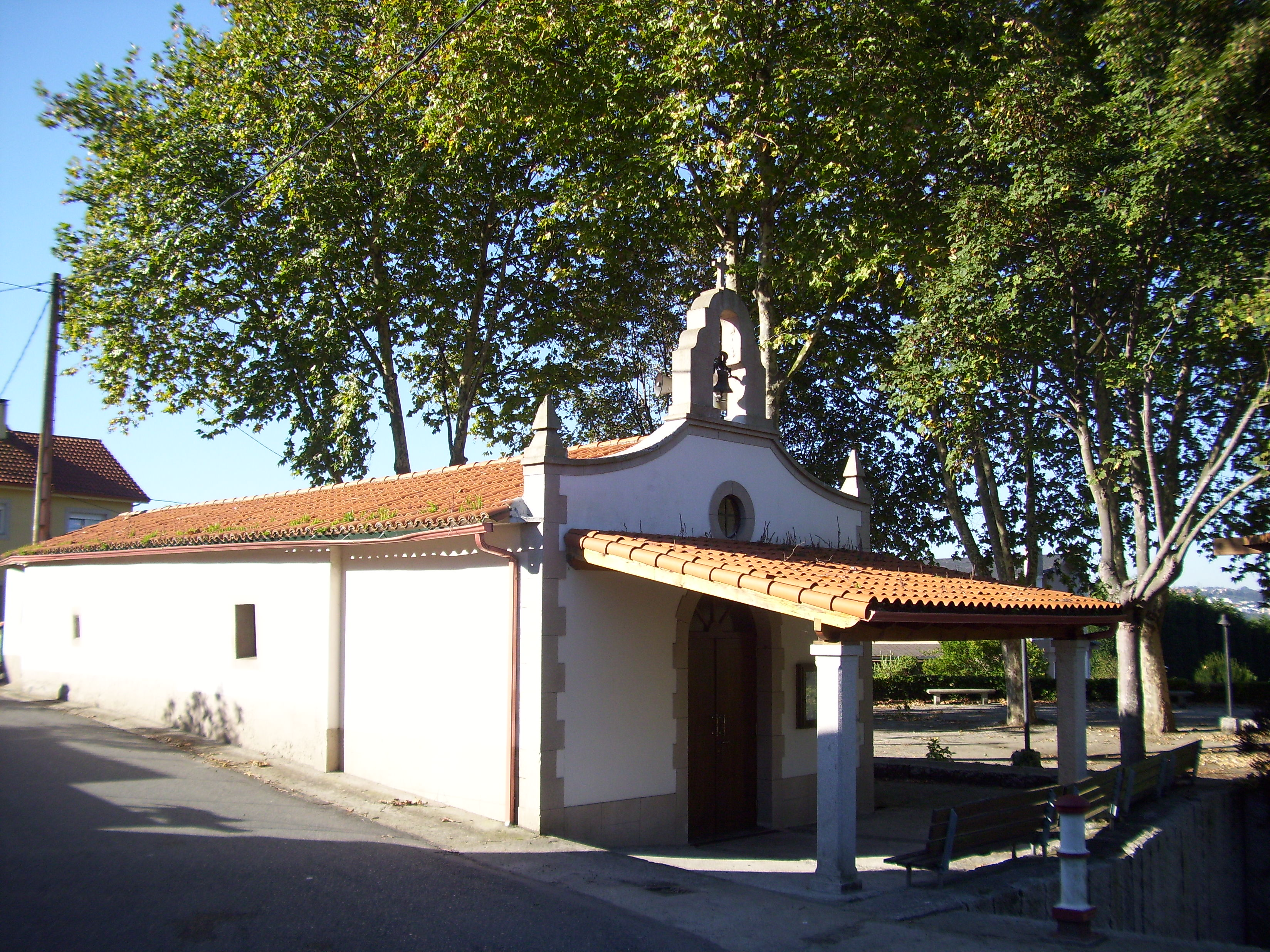 Chapel of San Paio (St. Pelagius) in Montrove (Liáns, Oleiros).